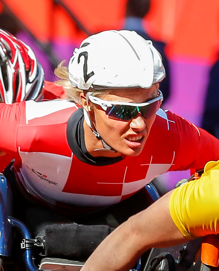 Edith Wolf (formerly Edith Hunkeler) of Switzerland competing at the heats of the women's 5000m T54 heats at the London 2012 Summer Paralympics.